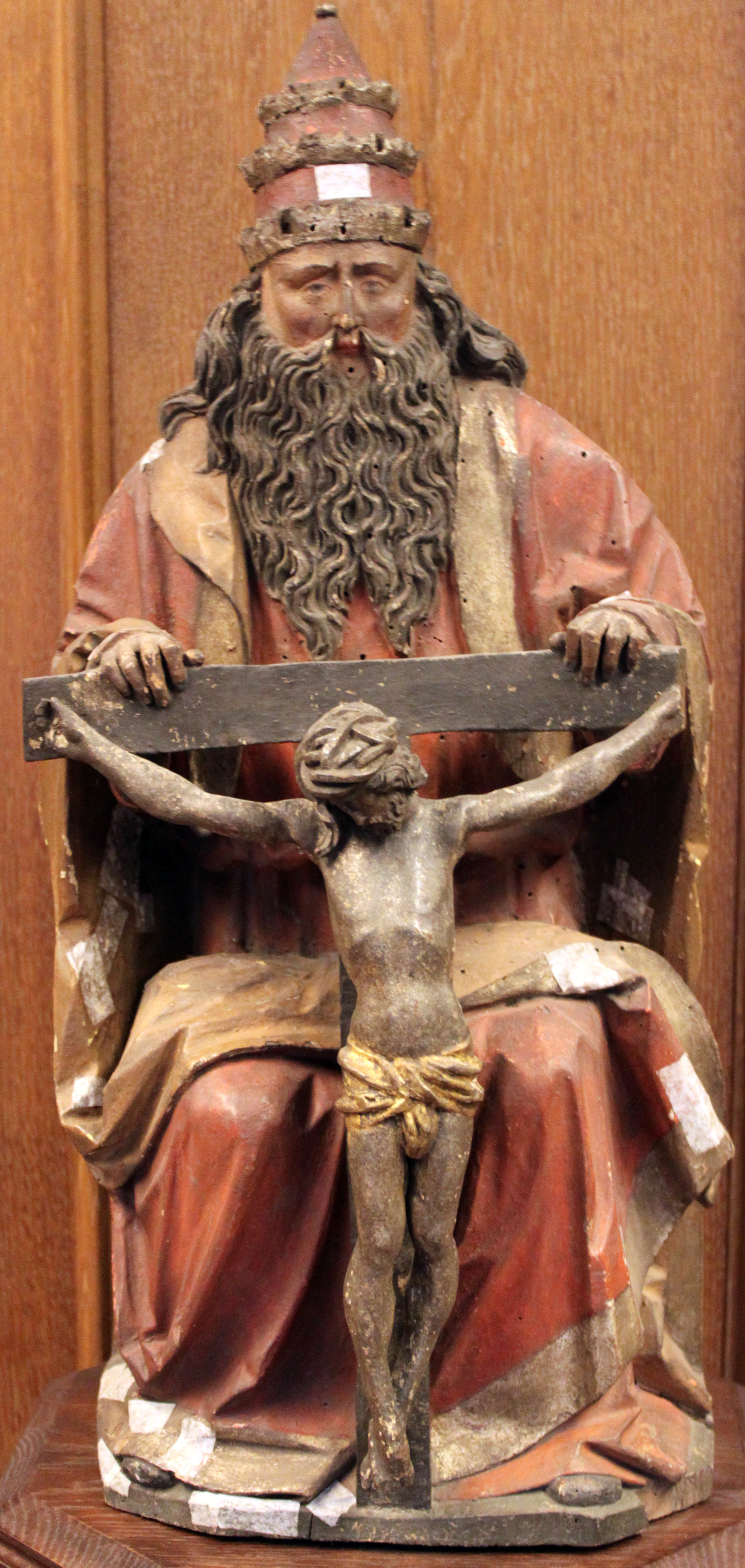 Throne of Mercy; Gertraud Hospital Berlin, early 16th Century; Märkisches Museum Berlin